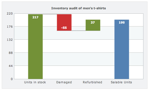 Example of waterfall chart